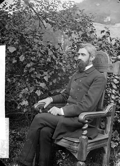 1 negative : glass, dry plate, b&w ; 16.5 x 12 cm.